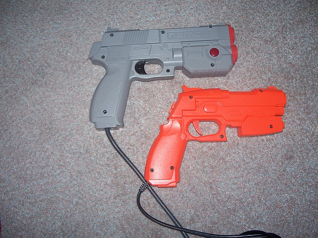 GunCon 1 and GunCon 2 controllers for the PlayStation 2.